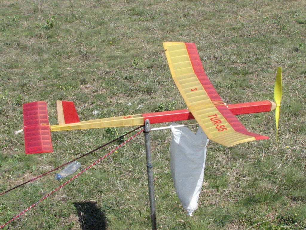 Istanbul FF-Cup 2006 Model by Naci Bitik